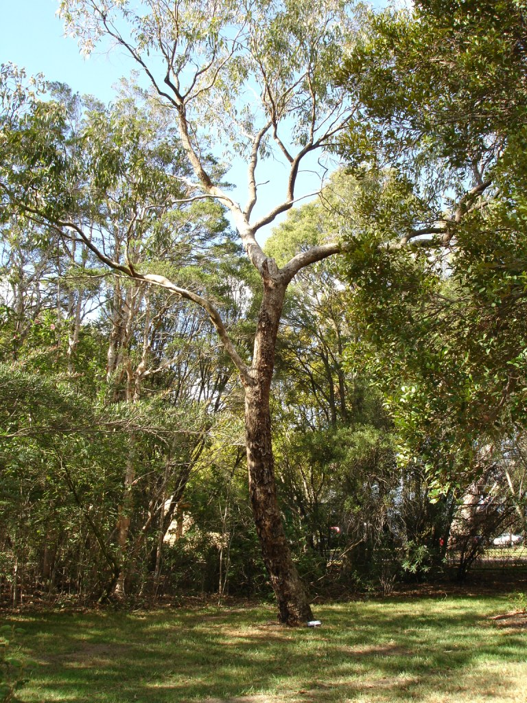 E. gomphocephala